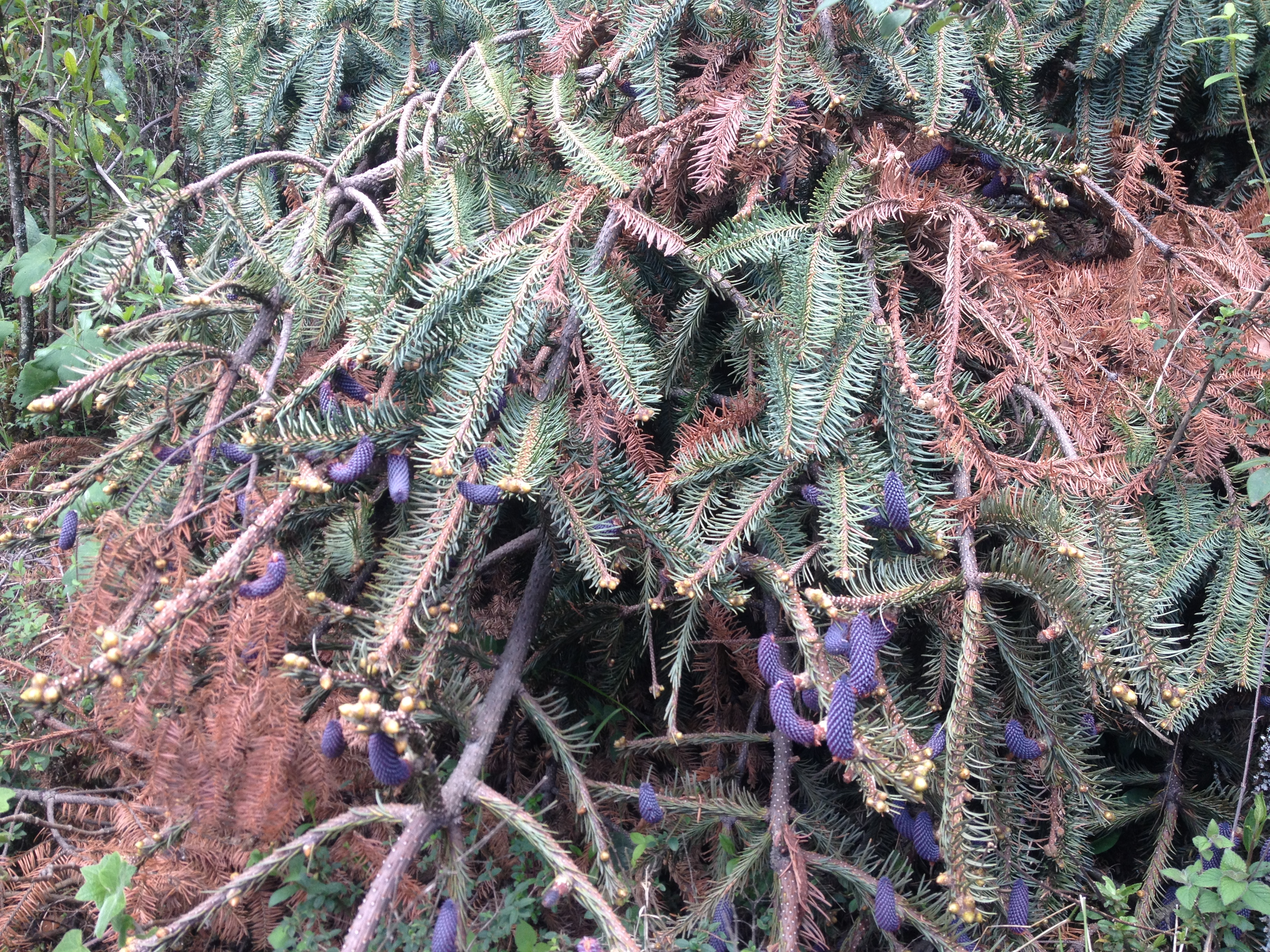 Sacred Fir Abies religiosa wilted leaves and cones on a broken or cut branch